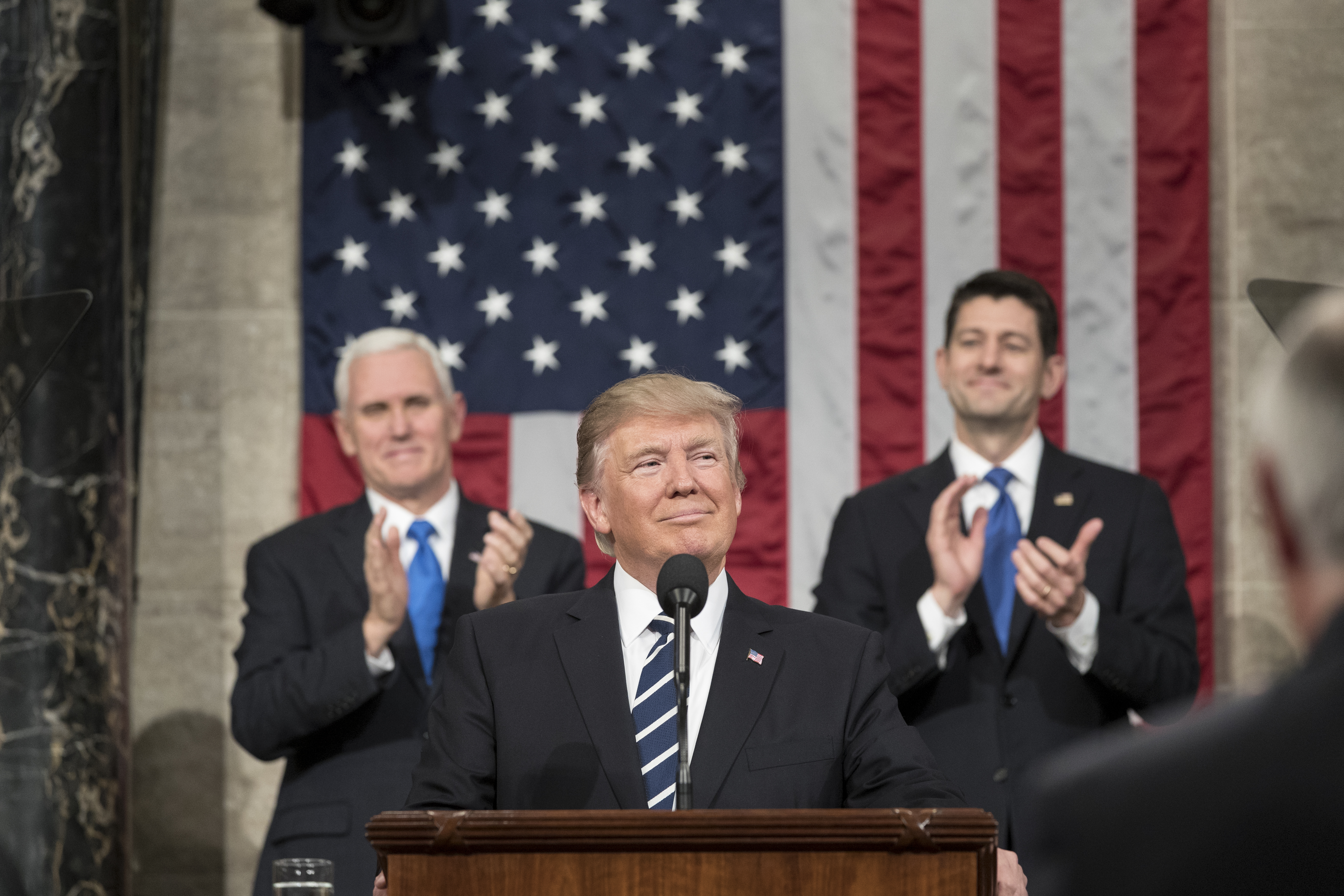 Flanked by Vice President Mike Pence and Speaker of the House Paul Ryan, President Donald Trump delivers his Joint Address to Congress at the U.S. Capitol Building in Washington, D.C., Tuesday, February 28, 2017. (Official White House Photo by Shealah Craighead)